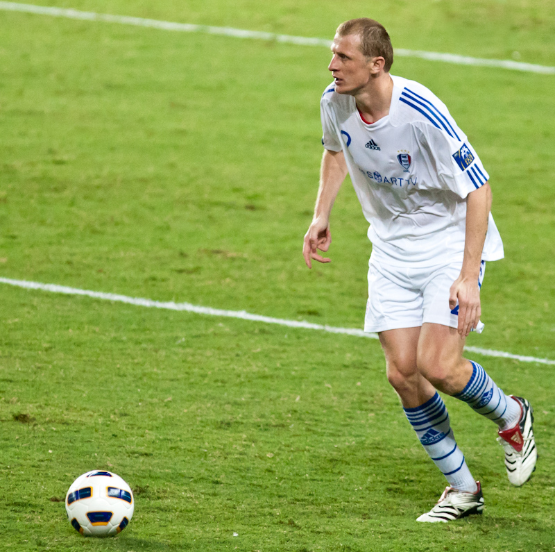 Mato Neretljak playing for Suwon Bluewings in the 2011 Asian Champions League against Sydney FC in Sydney, Australia.